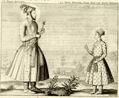 "Dara Sjecour and his son (Sepe Sjecour)," from one of Francois Valentijn's books of "Landbeschrijving," 1726